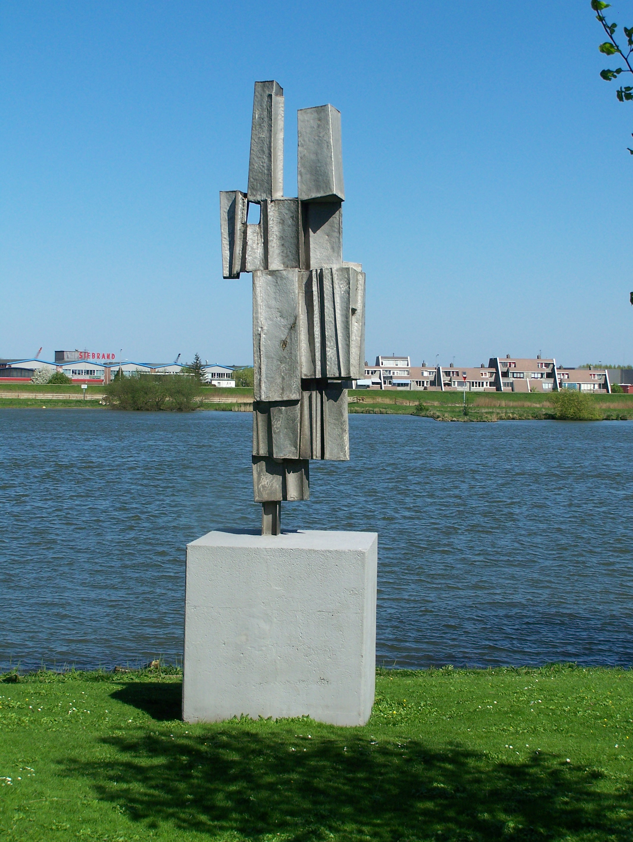 Sculpture by Paul Van Gysegem in 1965. Placed at the park at the De la Soblonièrekade in Kampen.